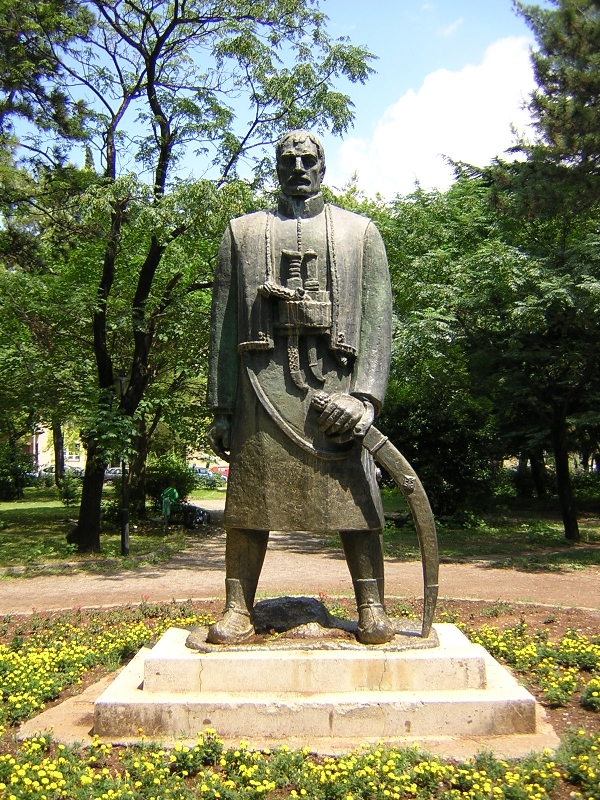 Monument of Karađorđe in Podgorica